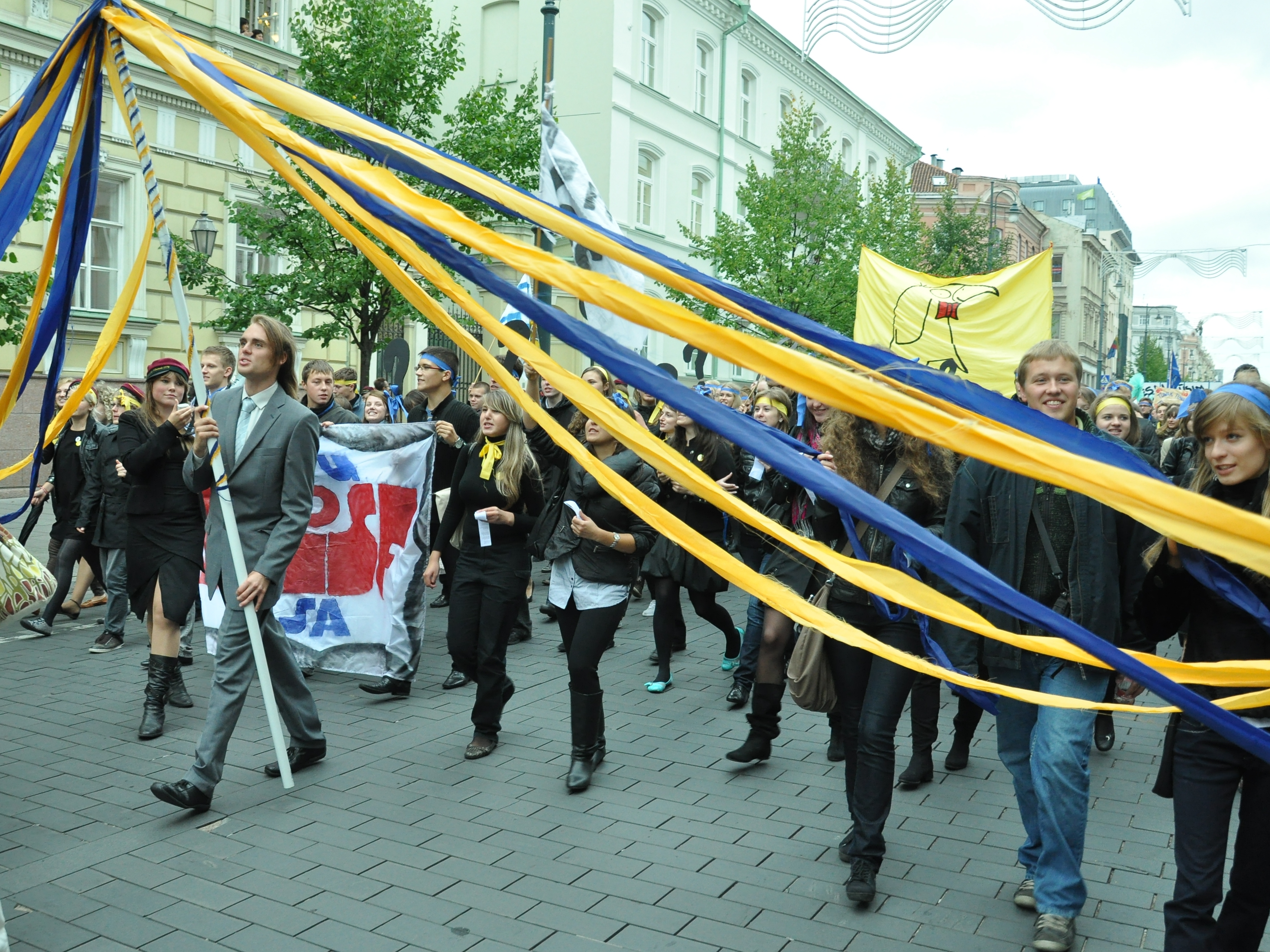 rugsejo pirmosios svente